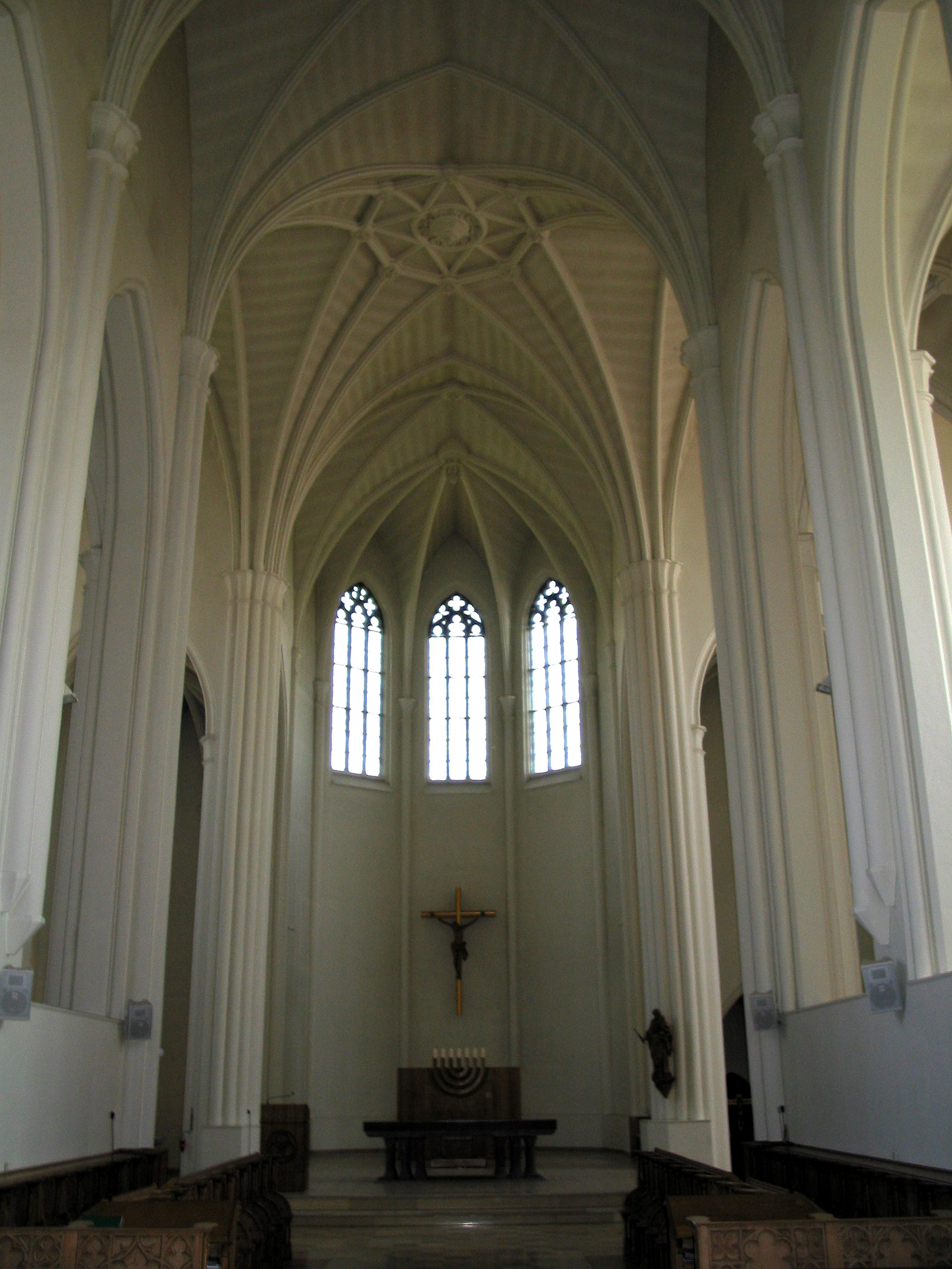 Forges (Chimay) (Belgium), nave of the N-D de Scourmont abbey church.